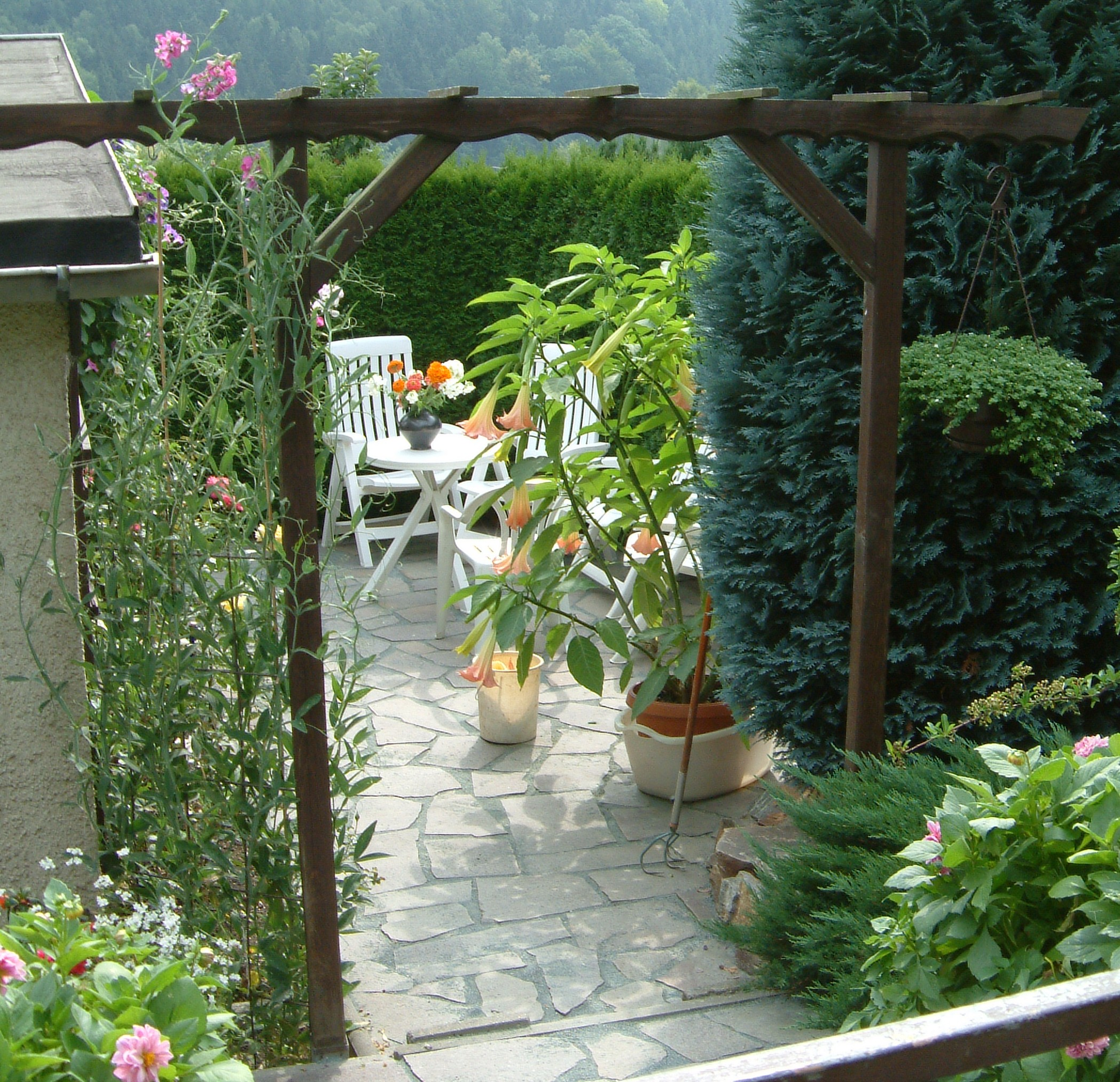 Rankhilfe_-_help_for_twiners_14_August_2003